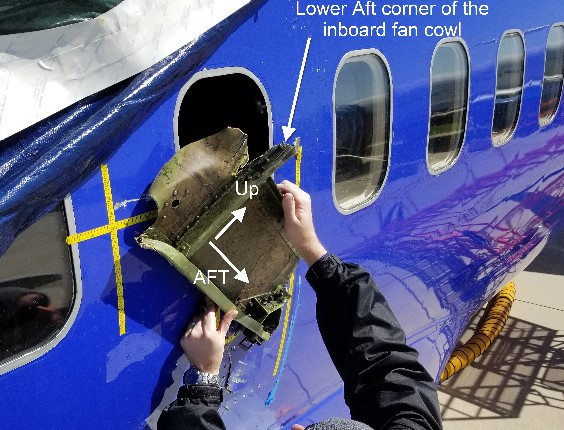 NTSB update May 3 2018 - Southwest Airlines Flight 1380 - N772SW - Figure 4 - Picture of window 14 with portion of engine inboard fan cowl